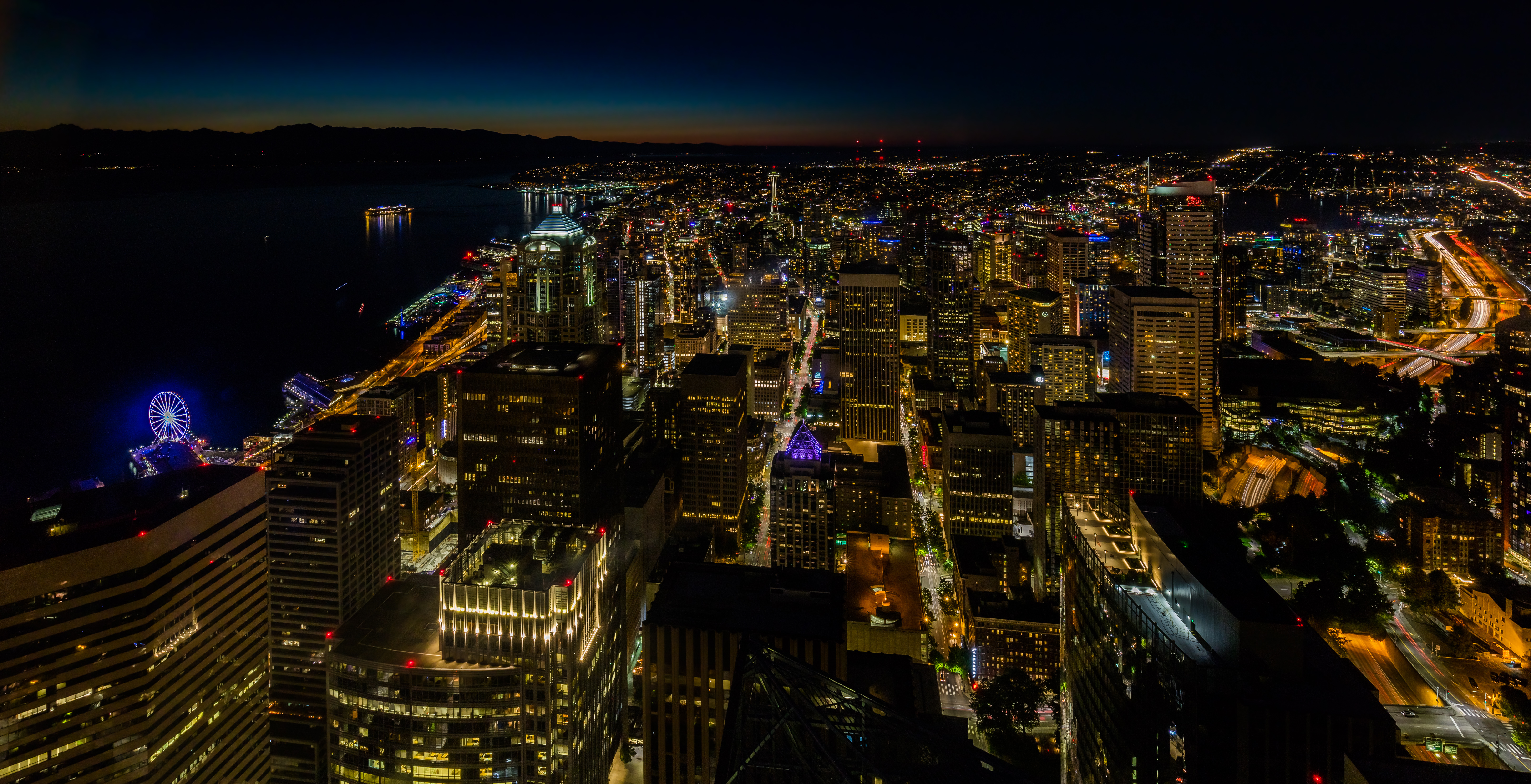 View of Seattle, Washington, USA